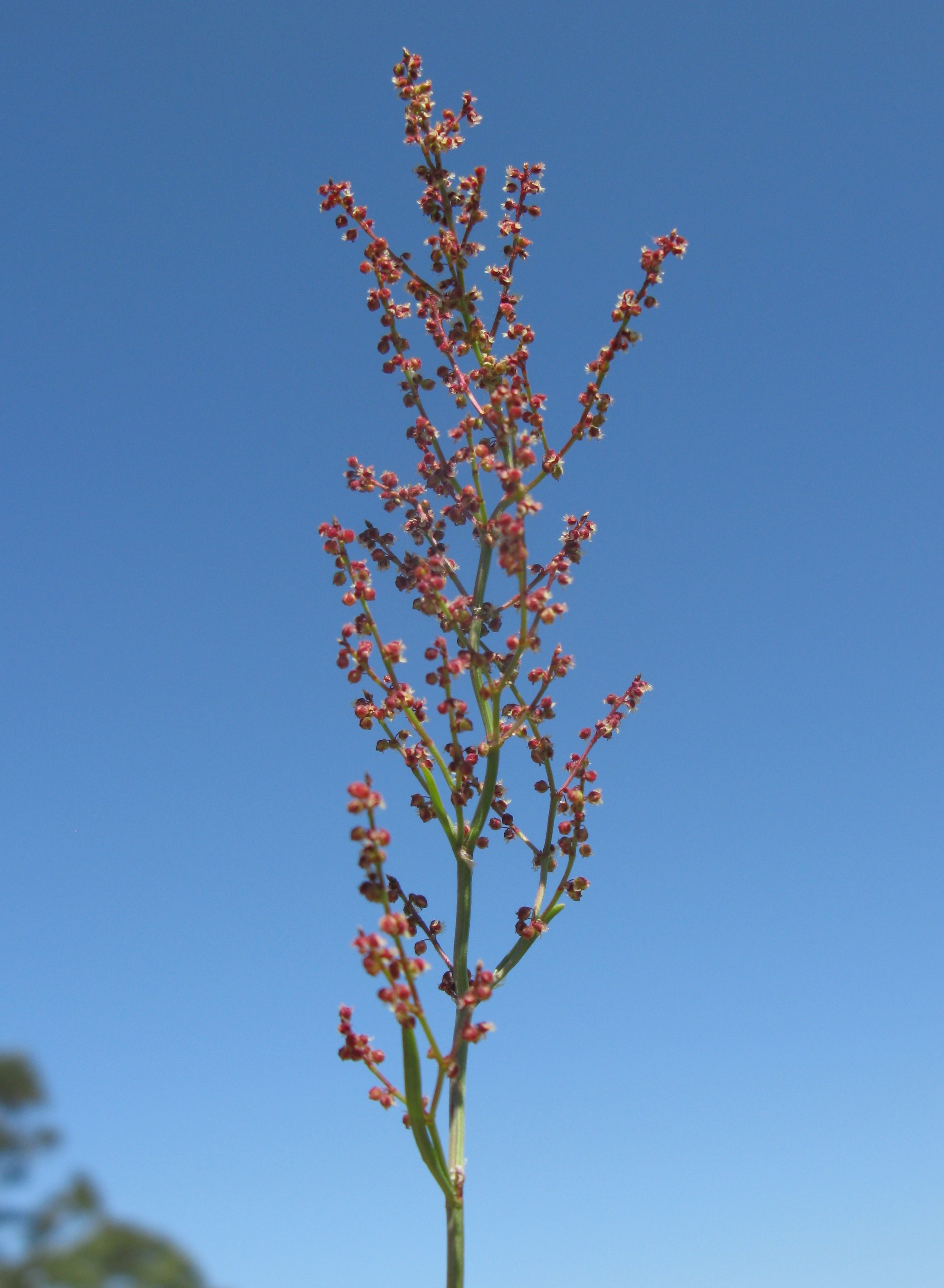 Reddish plants in photo. Introduced, cool-season, perennial, slender, erect herb to 40 cm tall. Rhizomes can form dense mats in some areas. Leaves form a rosette at the base of the plant; they are 2-7 cm long and shaped like an arrowhead, with 2 projecting lobes at their base. Flowerheads are narrow panicles with small rusty red flowers. Flowering is in spring. Possibly a native of Europe, it is a weed of pastures, waste ground and along roadsides; most common on acid, low fertility, sandy soils. Often considered to be a weed of acid soils, but really indicates poorly competitive pastures, which may be caused by soil acidity. Is grazed, especially by sheep, but contains an oxalate that occasionally poisons stock where sorrel is abundant. Grazing systems (rotational grazing and spelling) that promote good groundcover and competition will reduce sorrel. Fertiliser, and sometimes lime, is important to maintain competitive pastures. Herbicides used to control sorrel also kill legumes.